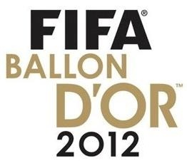 FIFA Ballon d’Or 2012 Fan-made Logo